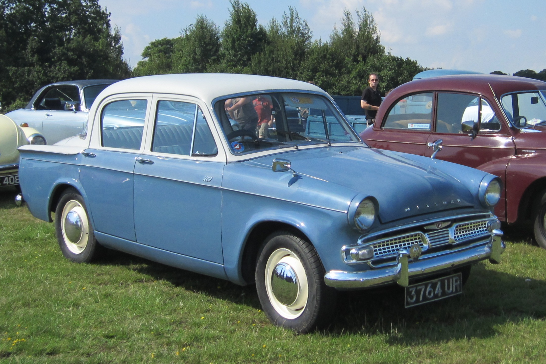 Hillman Minx Series IIIC (ca 1962)